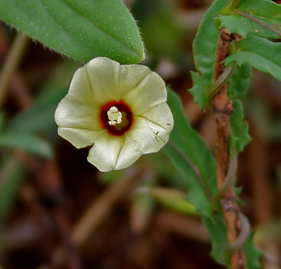 Arrow-leaf Morning Glory Xenostegia tridentata in Hyderabad , India.